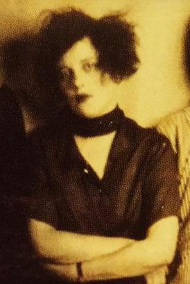 Australian socialite Sheila Chisholm at a fancy dress party, Florida, United States